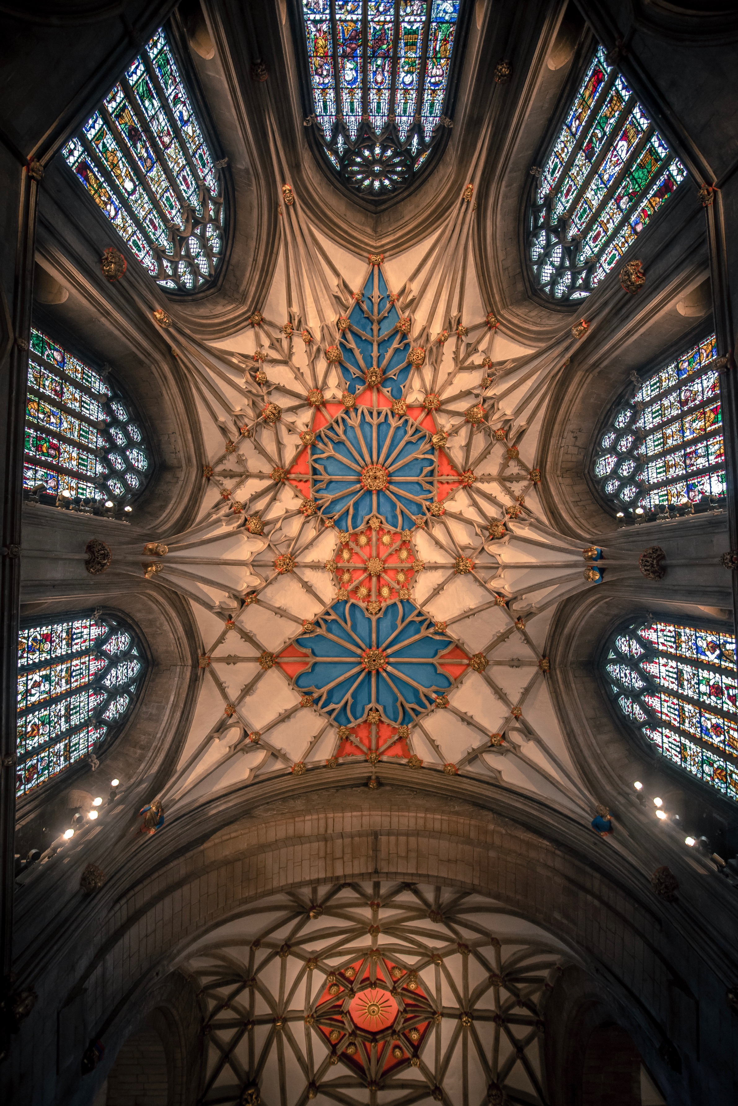 The decorated ceiling of Tewkesbury Abbey directly above the choir and altar.